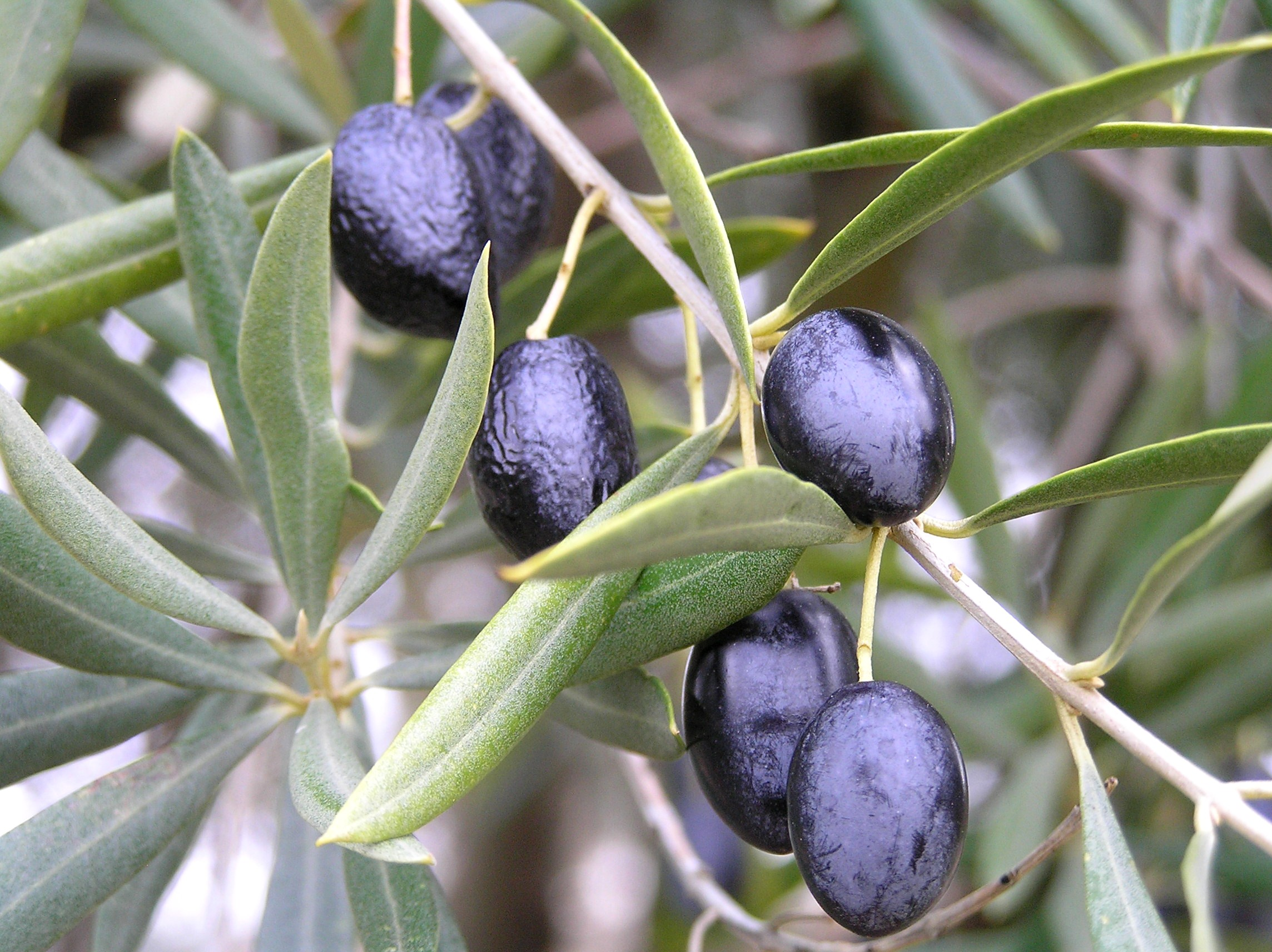 Aceitunas maduras